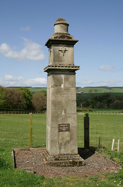 The Bastie Monument, near Preston, Scottish Borders. In honour of Antione d'Arcy, a French Knight who was murdered near Langton in 1517. The inscription on the monument reads:- IN MEMORY OF ANTOINE DARGIE SEIGNEUR DE LA BASTIE A FRENCH KNIGHT WHO HAD BEEN APPOINTED WARDEN OF THE MARCHES INSTEAD OF LORD HOME TREACHEROUSLY BEHEADED IN EDINBURGH. DE LA BASTIE AND HIS TROOPS MET HOME OF WEDDERBURN AND HIS CLAN NEAR LANGTON AND HOME ACCUSED HIM OF BEING ACCESSARY TO THE SLAUGHTER OF HIS CHIEF. A FIGHT ENSUED, THE FRENCH WERE DEFEATED AND DE LA BASTIE SLAIN AND BURIED AT THIS SPOT AND A CAIRN RAISED OVER THE GRAVE BY ORDER OF PATRICK HOME OF BROOMHOUSE A.D. 1517. R.I.P. A small plaque below reads:- RE-ERECTED 1975 BY BERWICKSHIRE CIVIC SOCIETY